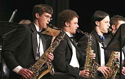 The Flower Mound High School Orchestra performing